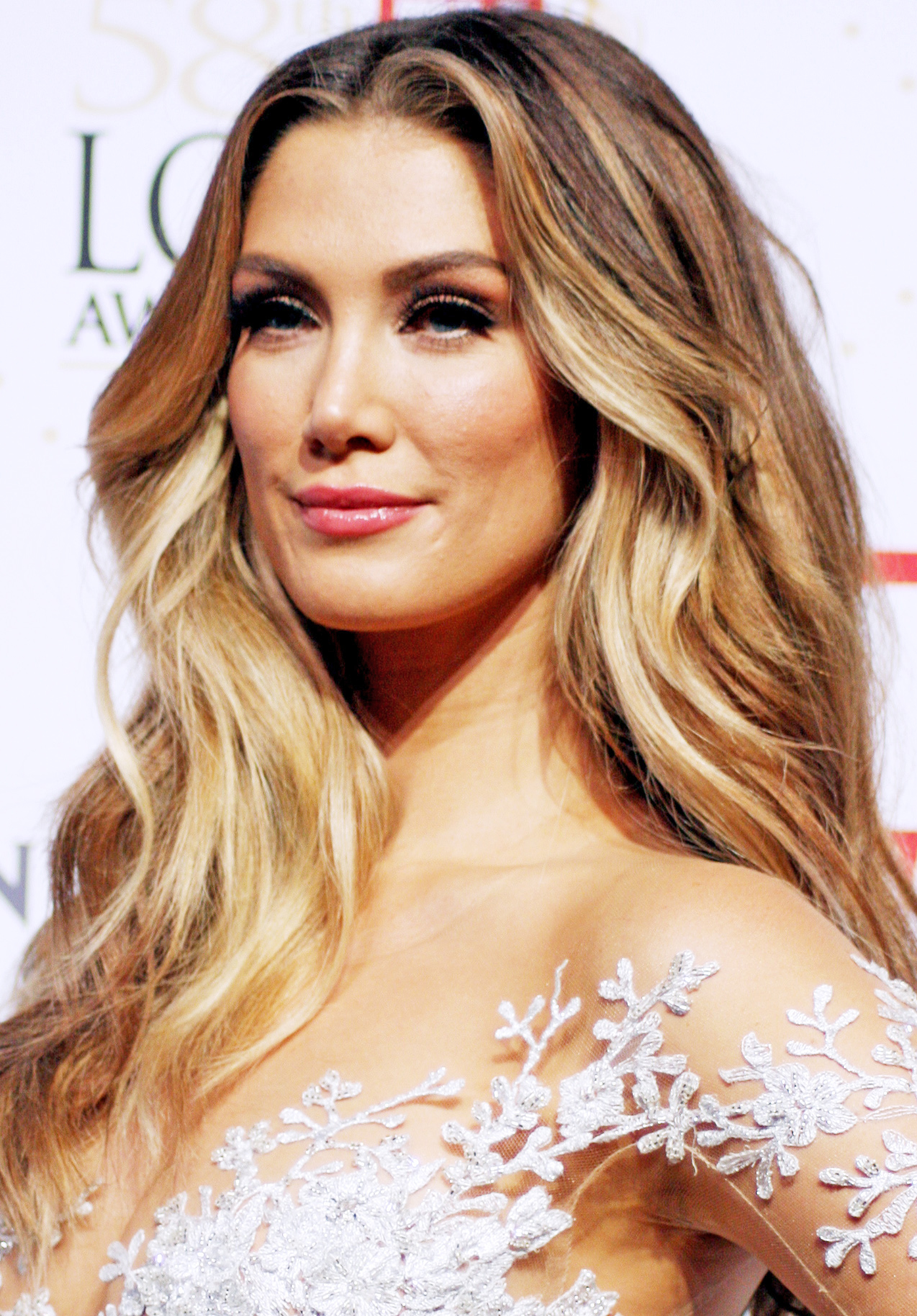 Delta Goodrem arrives at the 58th Annual Logie Awards at Crown Palladium